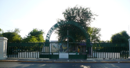 Picture of the Narciso Mendoza Park